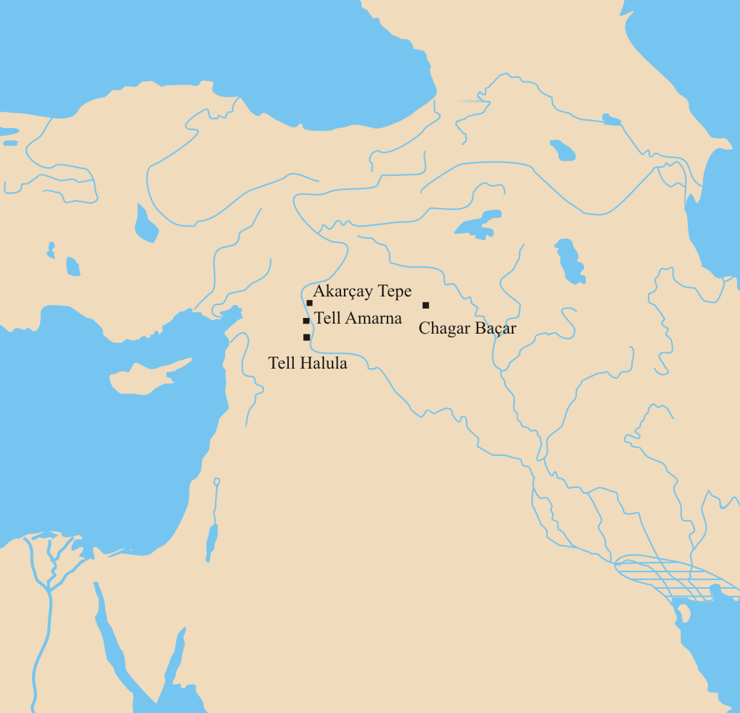 Catalan excavations in Syria and Turkey